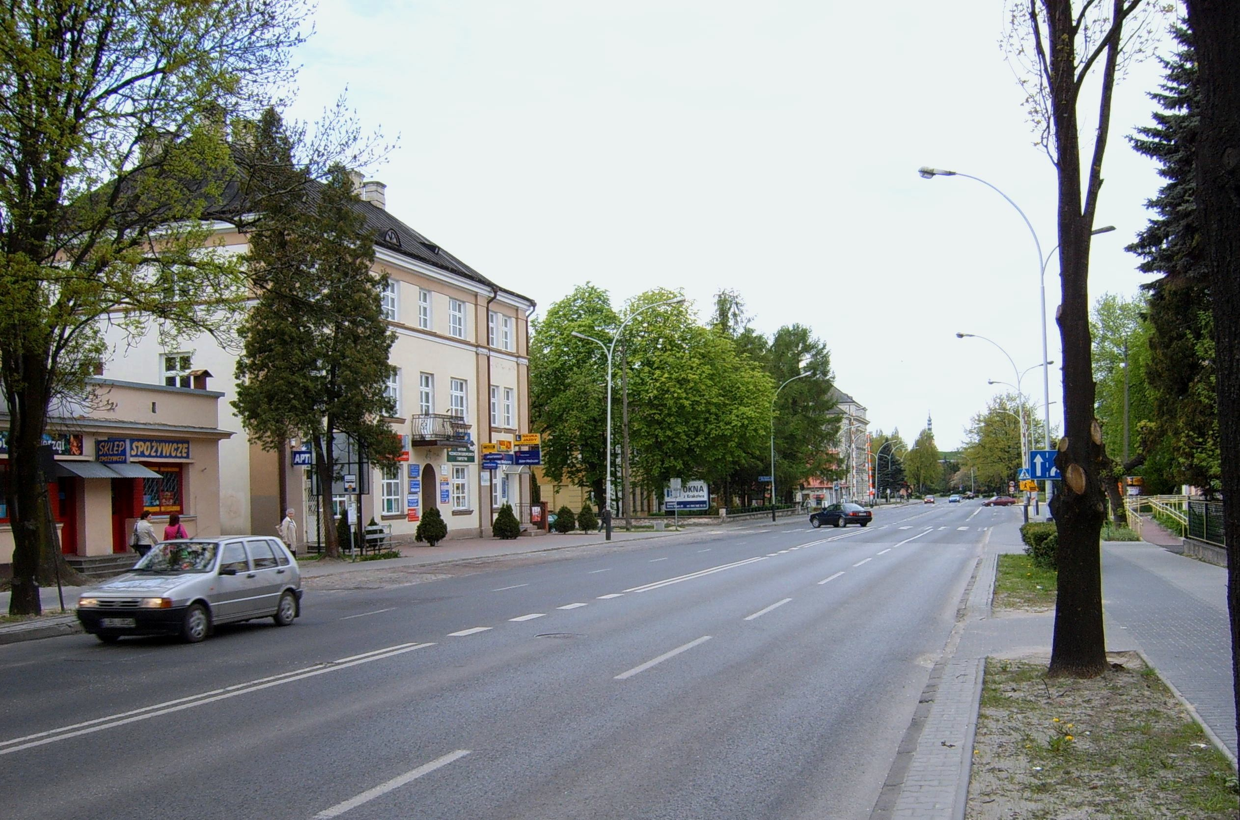 Partyzantów St. in Zamość, Poland